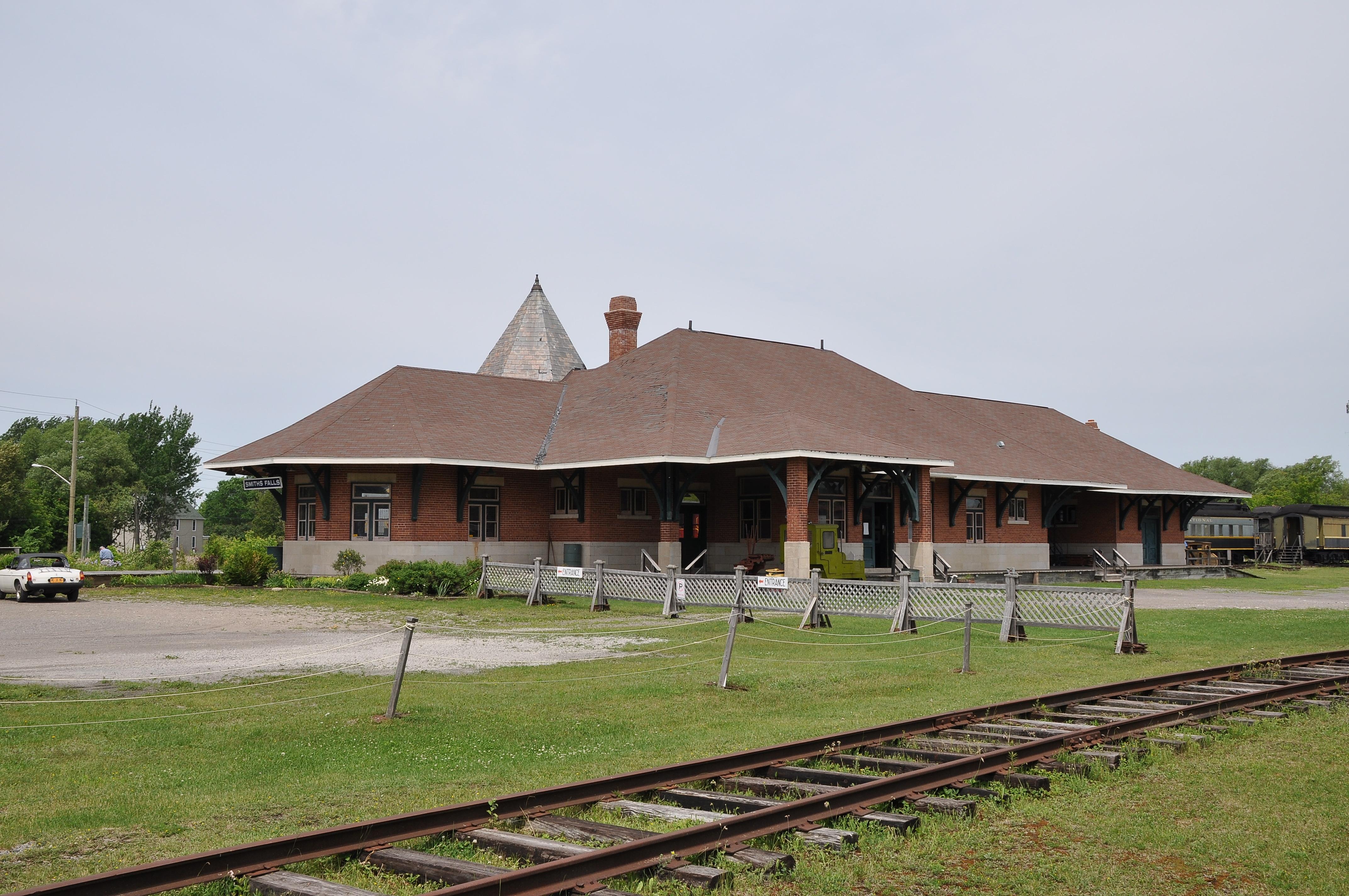 So here then is the Railway Museum of Eastern Ontario, housed in the old Smith's Falls station of the Canadian Northern Railway (now defunct). Construction of this station started in 1911 amd it was officially opened in 1912. The building was intended to serve as a model of the high architectural standards of the Canadian Northern. The grand design was however not consistent with the low volumes of traffic at that time and failed to draw passengers away from the well established Canadian Pacific station across town. (Smith's Falls, Ontario, Canada, June 2015)